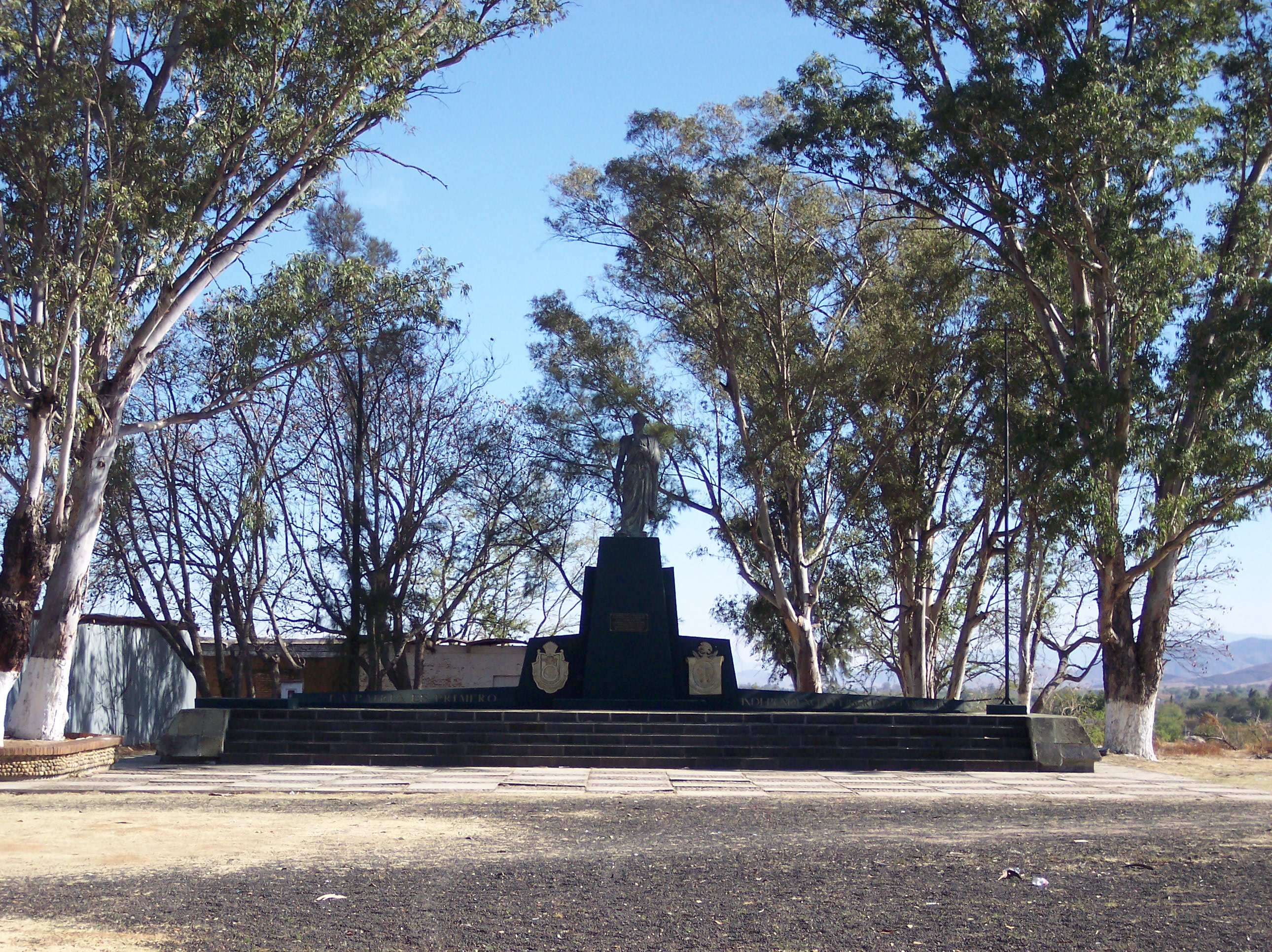 Vicente Guerrero monument in the yard of the Santiago Apostol Convent. It is located in Cuilapam de Guerrero.Town, Oaxaca, México. From image Convento_Santiago_Apóstol_letreroDañado-Cuilapam_de_Guerrero_Oaxaca_Mexico.jpg we can get more information about Culiapam de Guerrero.